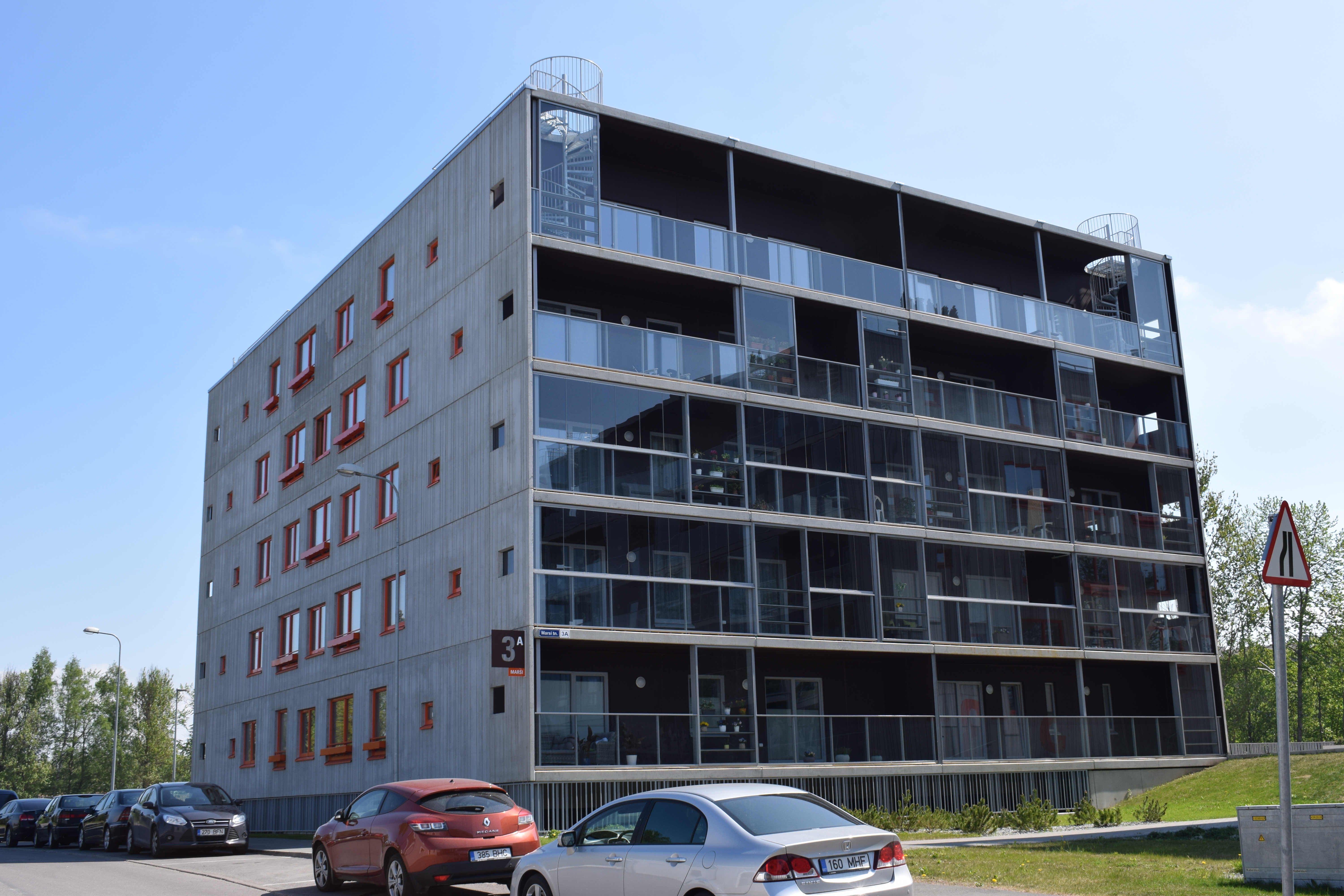 Marsi street 3A